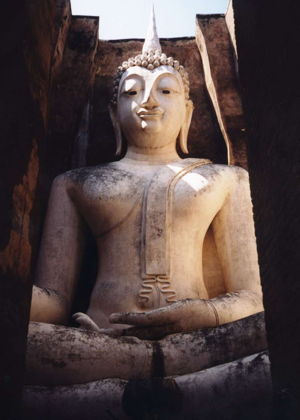 Wat Si Chum in Sukhothai historical park, Sukhothai province, Thailand. The Buddha statue was originally in a roofed building, however after the roof was gone it became covered with green-black lichen and algae. Photo taken by User:Ahoerstemeier on October 28 2000.